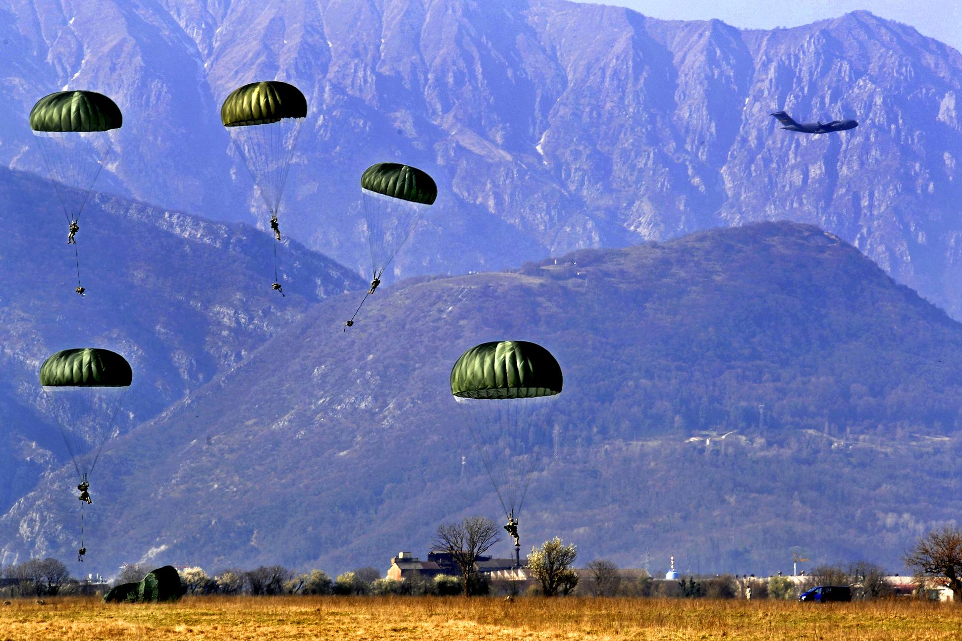 Members from the U.S. Army 173rd Airborne Brigade Combat Team conducts combat jump operations from a C-17 Globemaster III during a joint coalition training exercise March 23, 2011, at Aviano Air Base, Italy. More than 1,400 personnel from the 173rd ABCT, the 8th Air Support Operation Squadron and Italian Army paratroopers participated in the weeklong event. (U.S. Air Force photo/Staff Sgt. Nadine Y. Barclay)